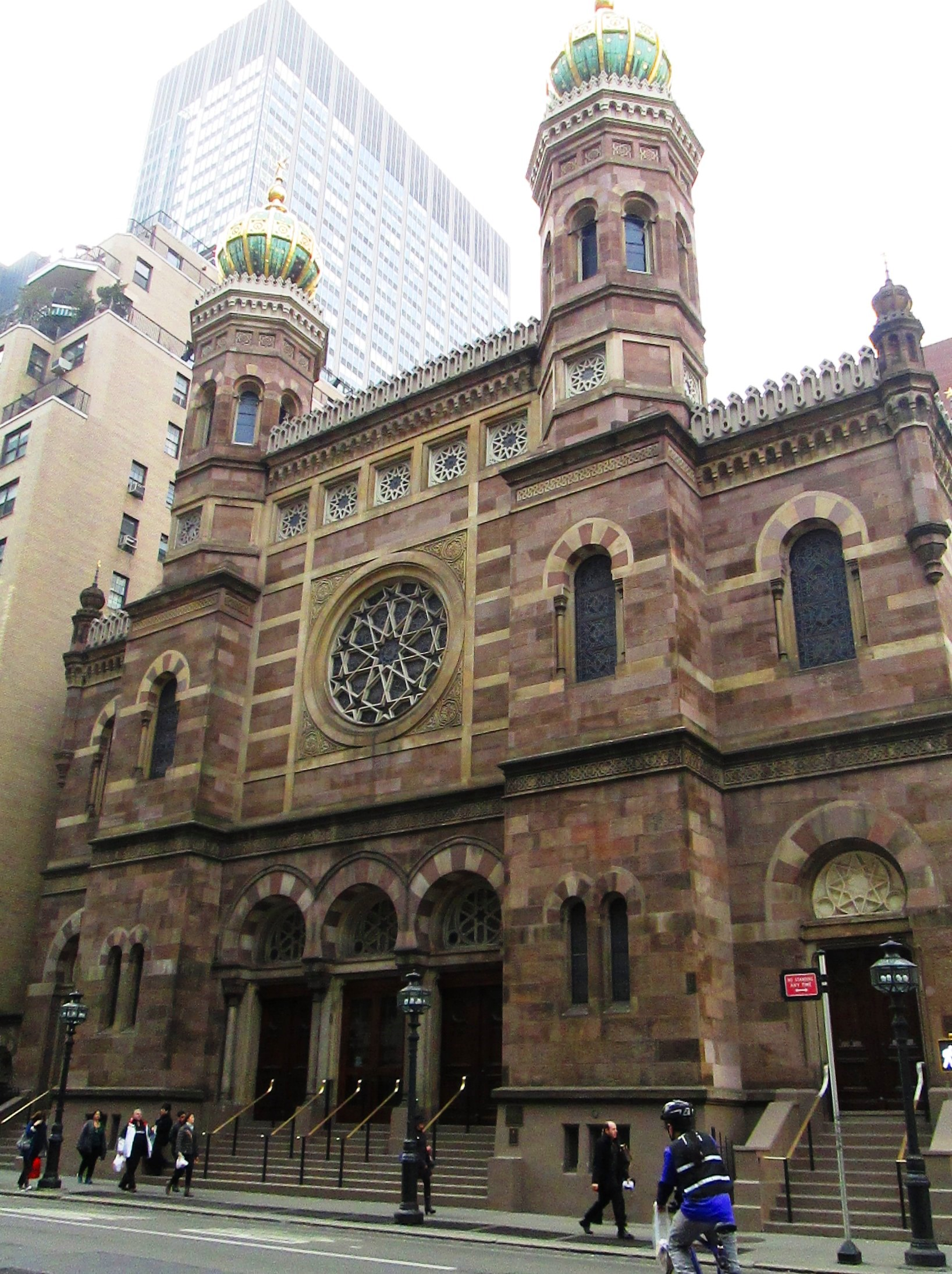 The Central Synagogue (Congregation Ahavath Chesed) is located at 652 Lexington Avenue on the corner of East 55th Street, Manhattan, New York City, New York. It was built in 1872 and was designed by Henry Fernbach in the Moorish Revival style as a copy of Budapest's Dohány Street Synagogue. It has been in continuous use by a congregation longer than any other synagogue in the city. The building was designated a New York City landmark on June 7, 1966, and was added to the NRHP on October 19, 1970, then designated a National Historic Landmark on May 15, 1975.